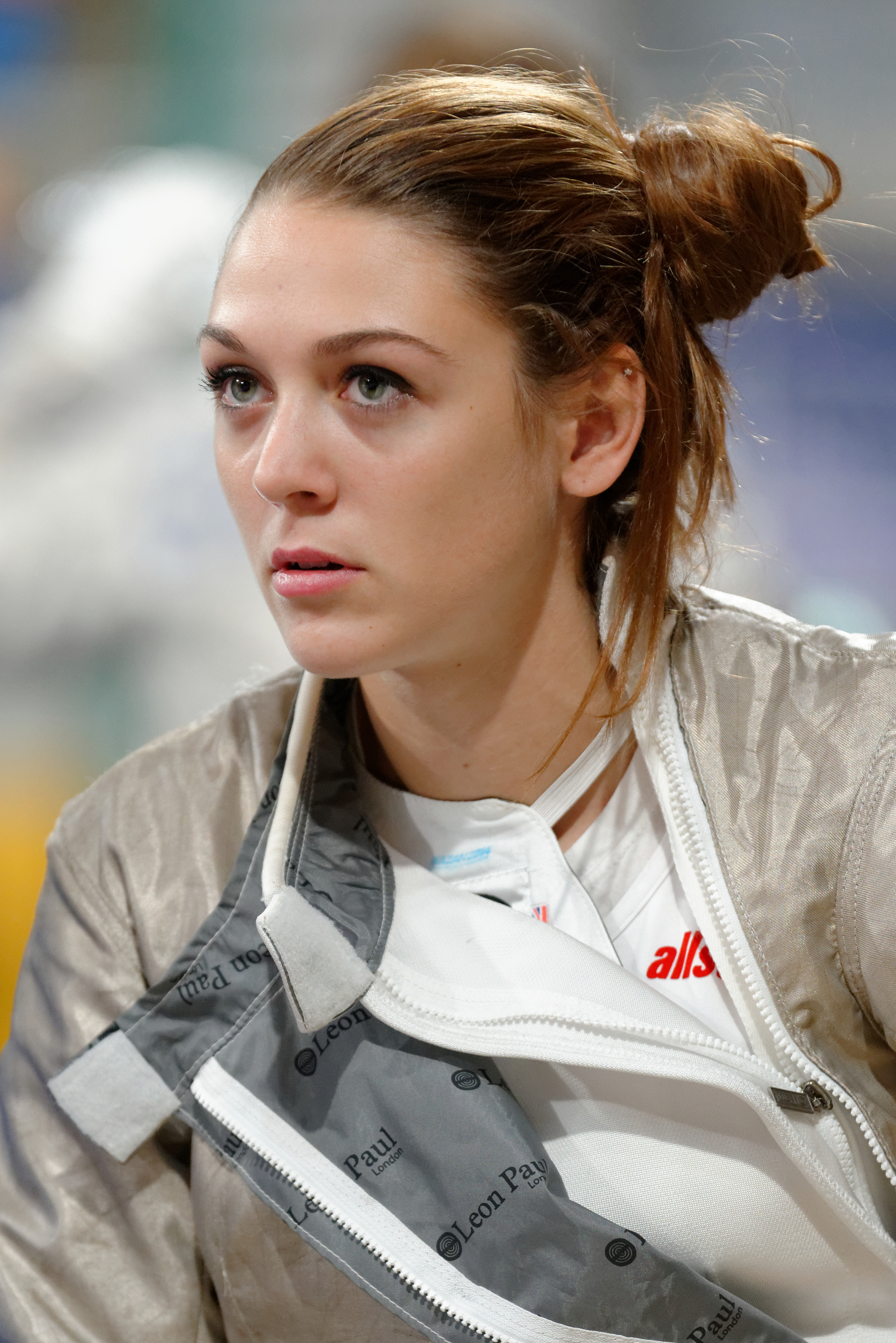 France's Manon Brunet in the team event of the 2014–15 Orléans World Cup in women's sabre.